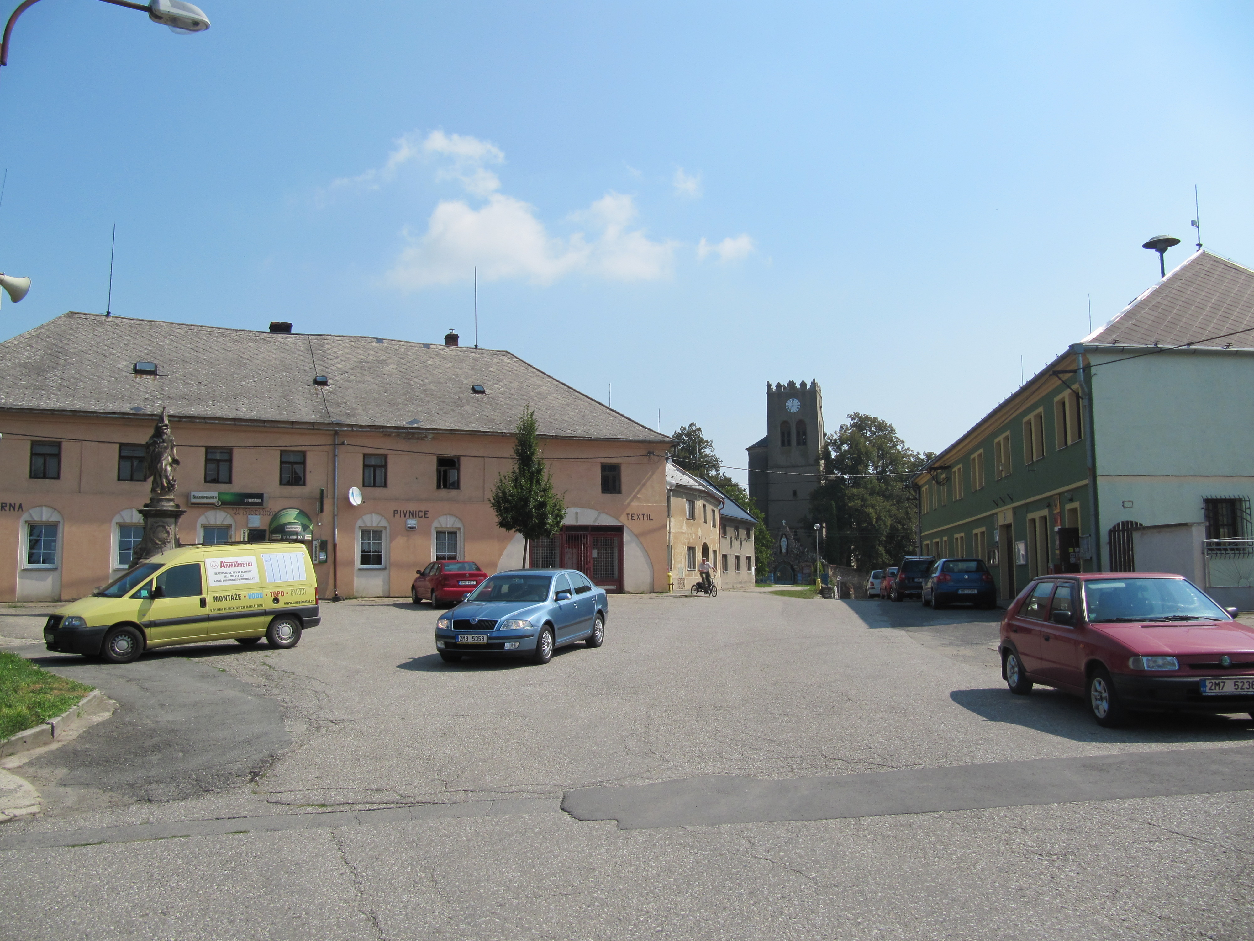 Náklo in Olomouc District, Czech Republic. Common.